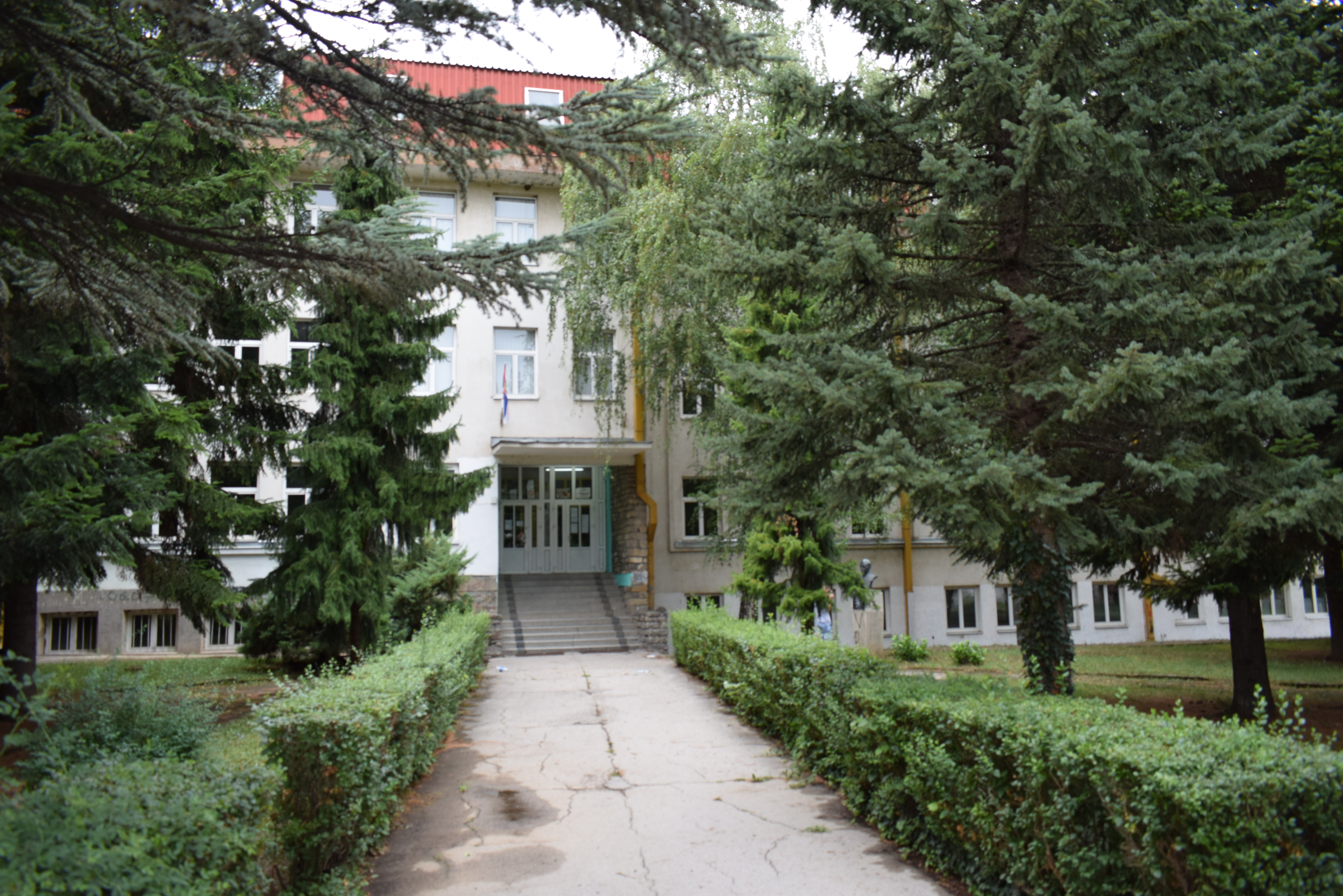 Gimnazija i Ekonomska škola, Kuršumlija 01